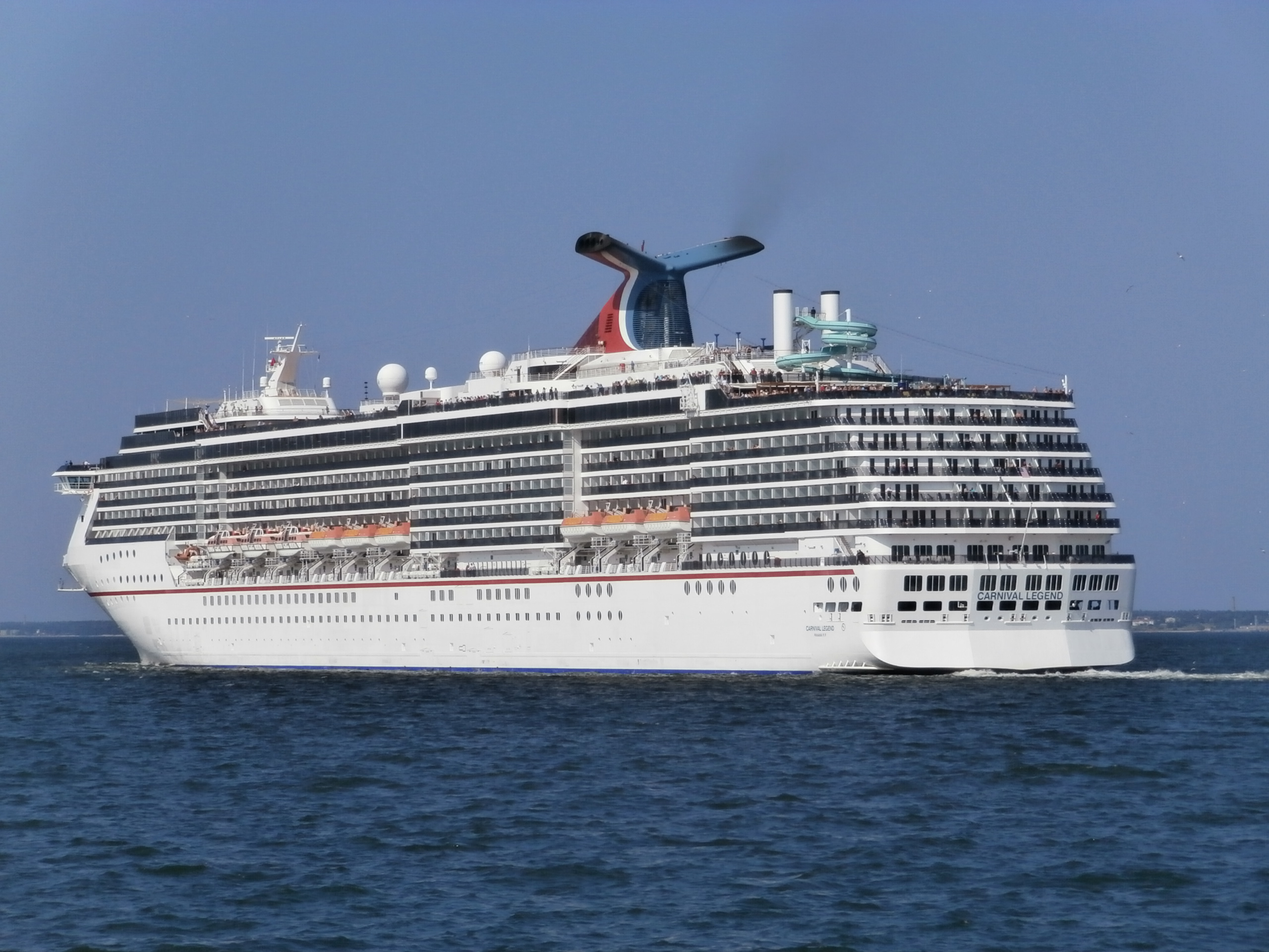 Carnival Legend leaving Tallinn 23 July 2013